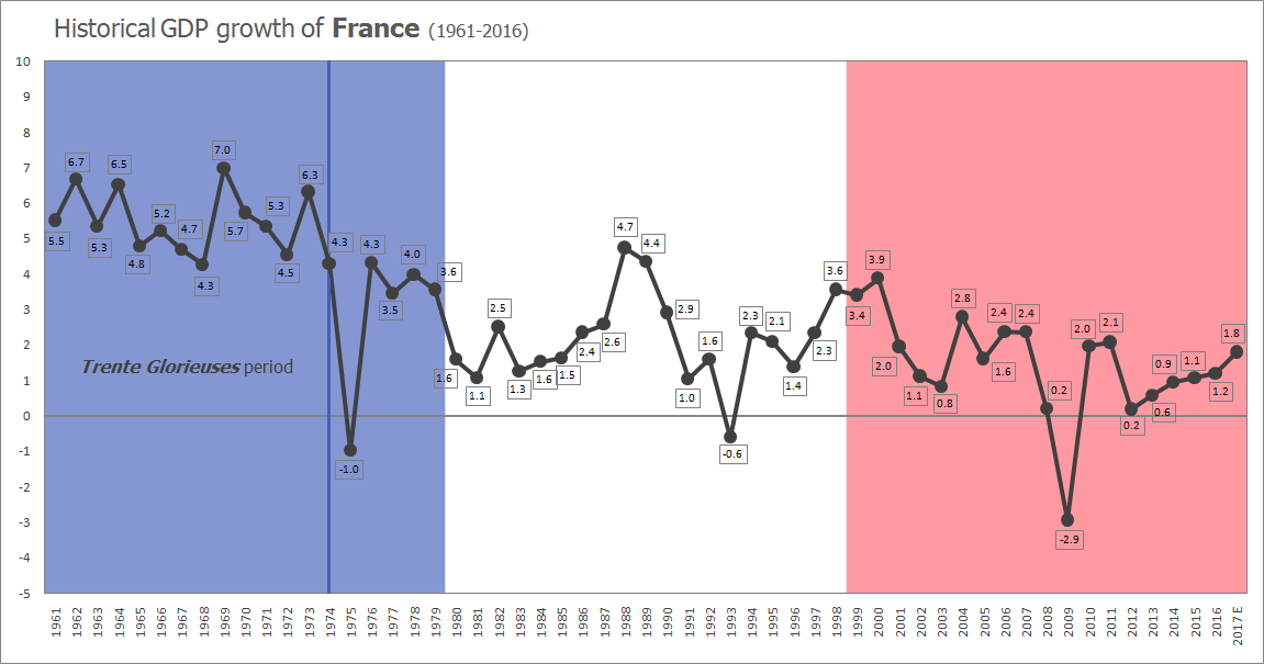 This graph shows the historical GDP growth of France from 1961 to 2017. It also indicates the latter part of Les Trente Glorieuses. Data from